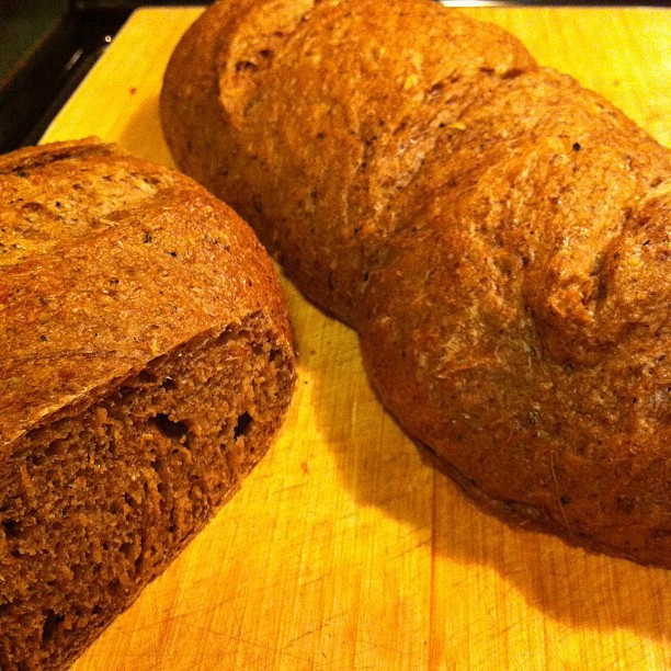 Spent grain bread, made from leftover grains from the brewing process